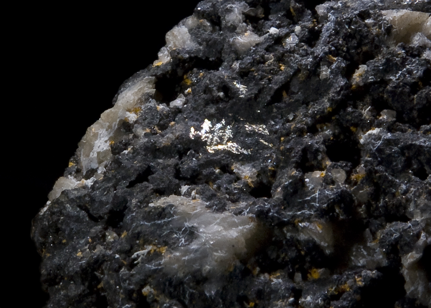 Sylvanite Locality : Sacarîmb (Sãcãrâmb; Szekerembe; Nagyág), Hunedoara Co., Romania Size : 4x2.8cm